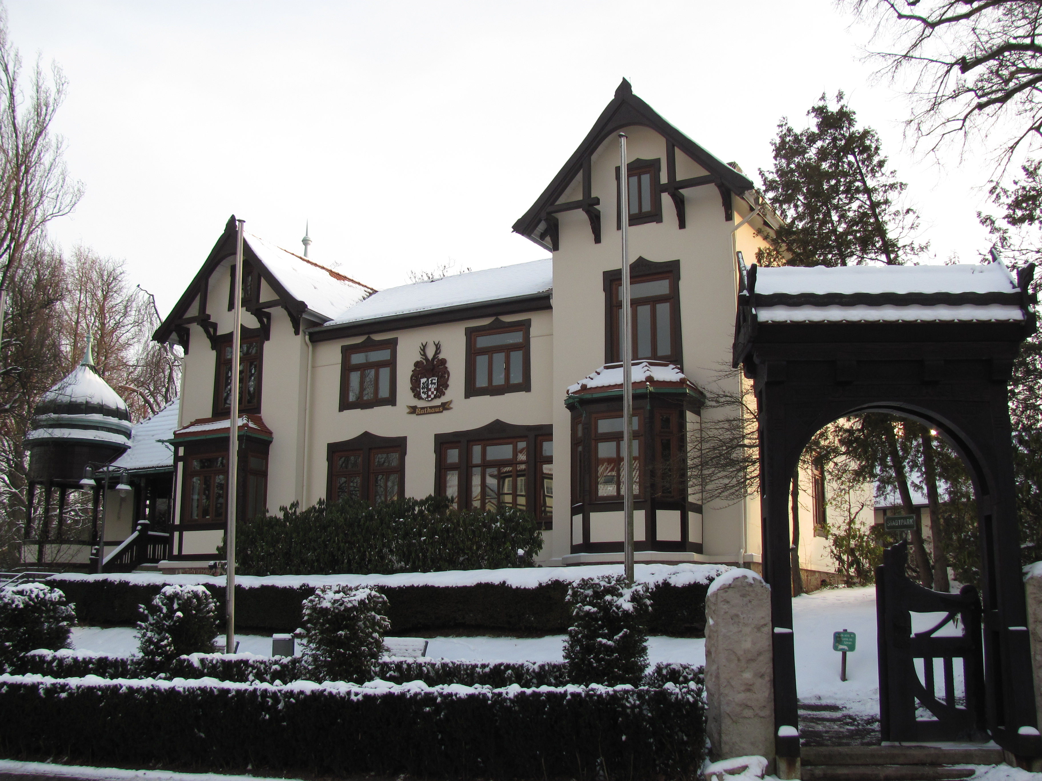 Town Hall, Bad Sachsa, Harz mountains, Lower Saxony, Germany